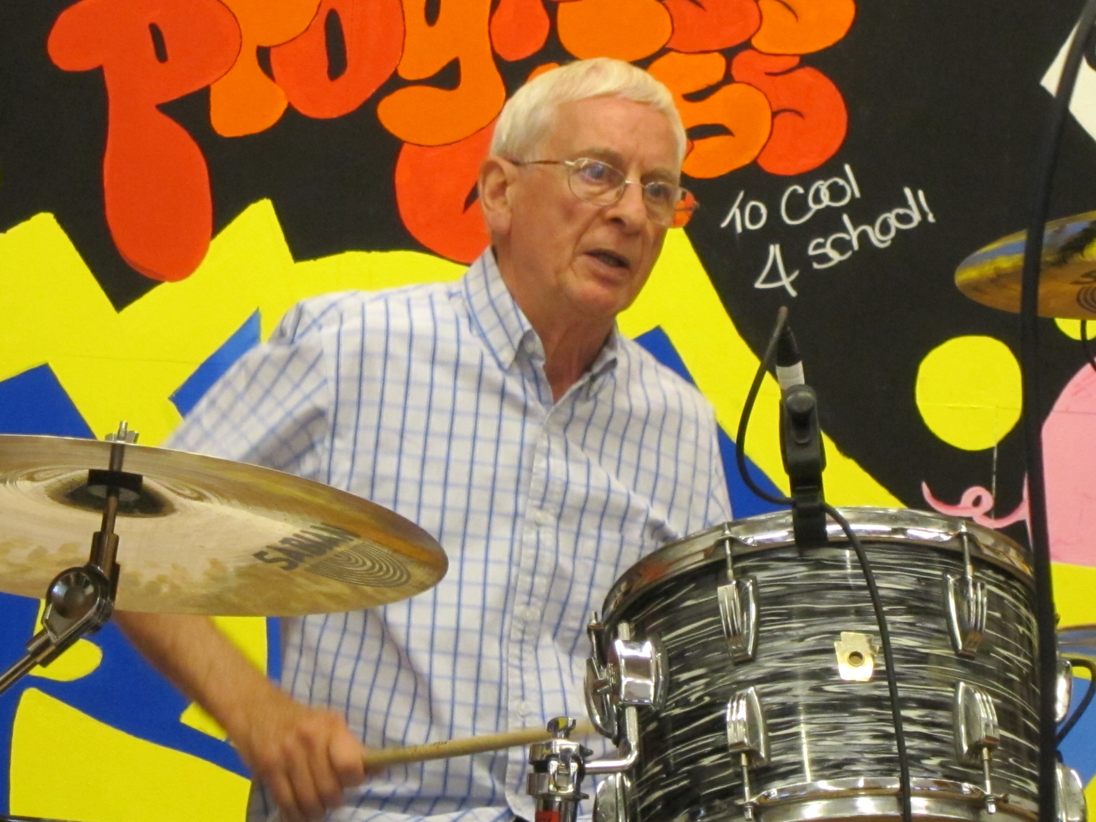 Colin Hanton, a member from The Quarrymen.